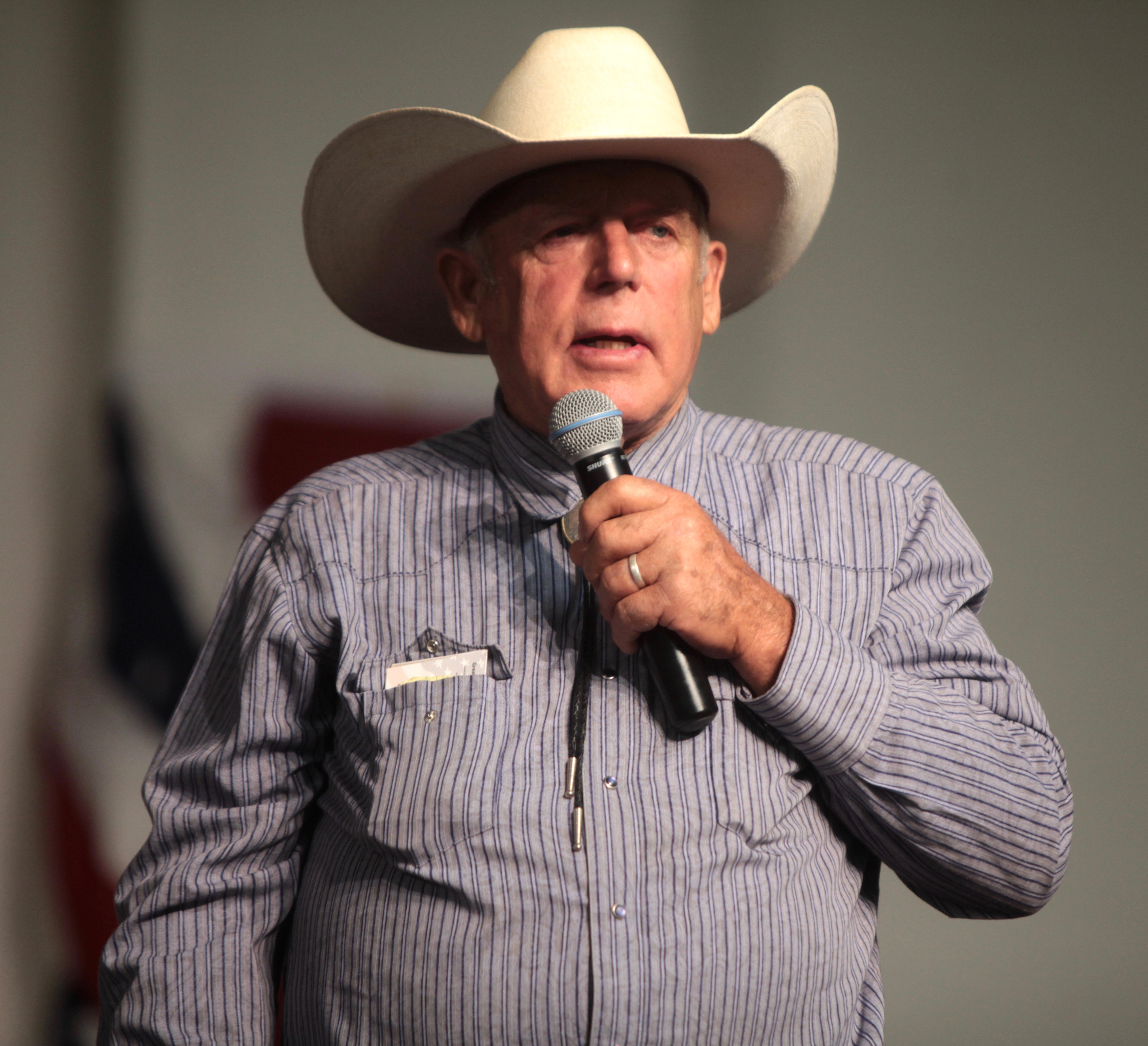 Cliven Bundy speaking at a forum hosted by the American Academy for Constitutional Education (AAFCE) at the Burke Basic School in Mesa, Arizona.